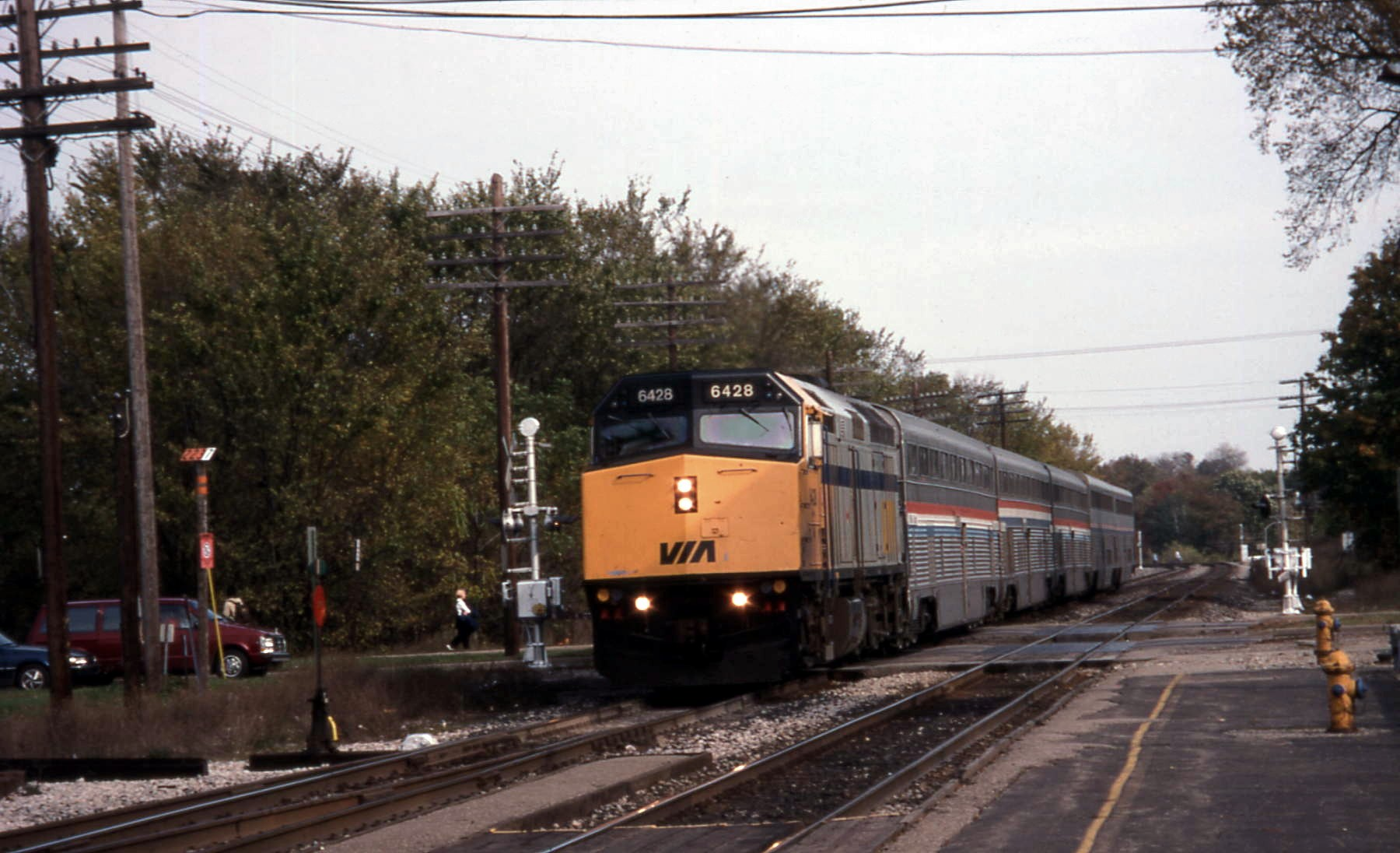 Via Rail #6428, an GMD F40PH-2, leads Amtrak's International Limited into East Lansing, Michigan. The train consists of three ex-ATSF Hi-Level coaches and a Superliner car.